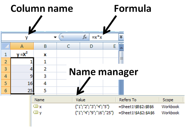 A spreadsheet showing how named variables are employed